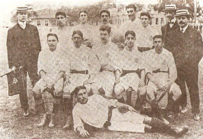 One of the first teams of Club Athletico Paulistano, in 1901.